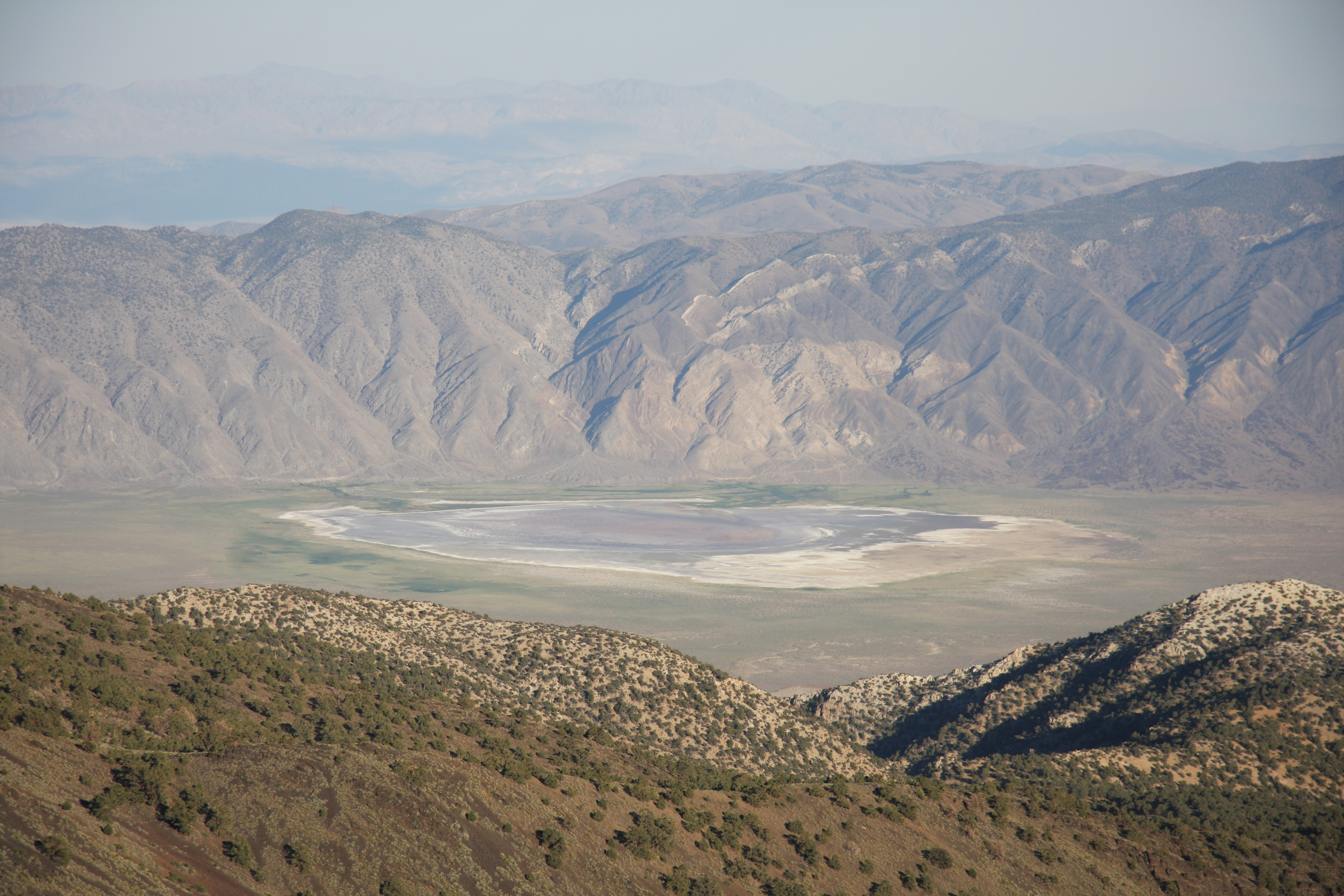 Deep Springs Valley, Inyo County, California. Viewed from the California White Mountains, looking east. Partially in Death Valley National Park, and on the western side of the Basin and Range Province.